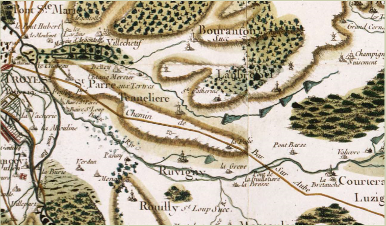 Cassini map of the village of Laubressel and its relationship with Troyes, Bouranton and the Pont de Guillotiere. Zoomed.